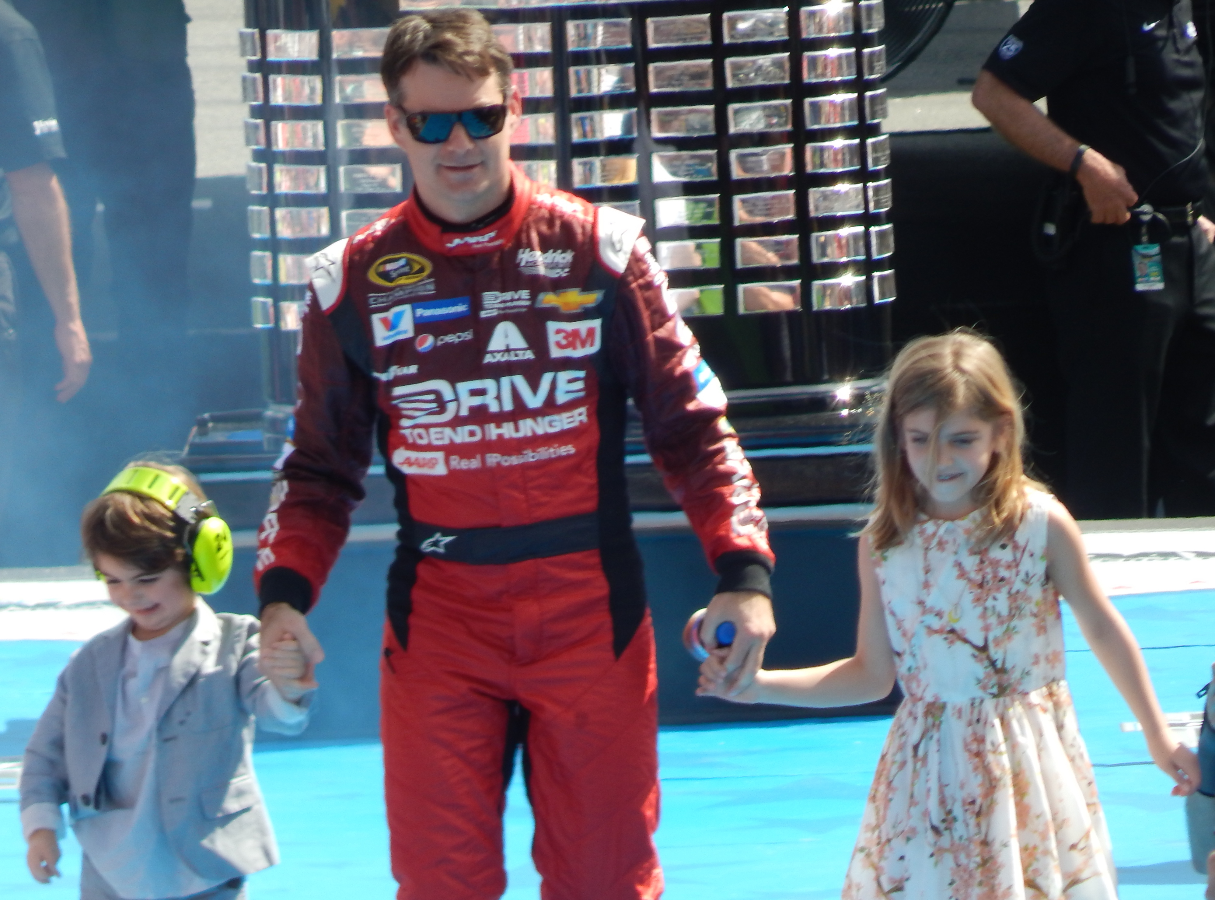 Jeff Gordon, accompanied by his children Ella and Leo, walks down the stage at driver introductions in his 23rd and final Daytona 500.